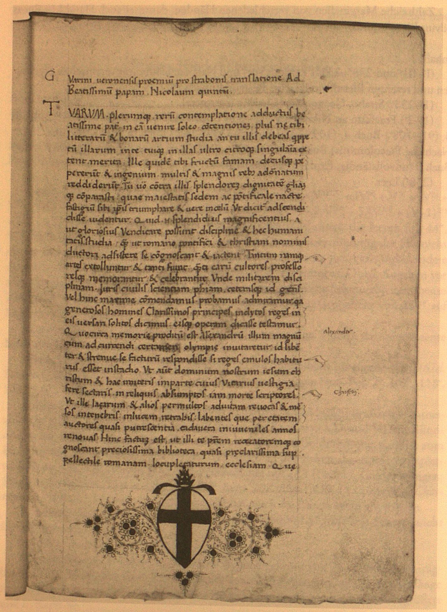 Guarino’s dedication letter to Pope Nicholas V on the occasion of the dedication of his Latin translation of Strabo’s „Geographica“. London, British Library, Burney 107, fol. 1r.